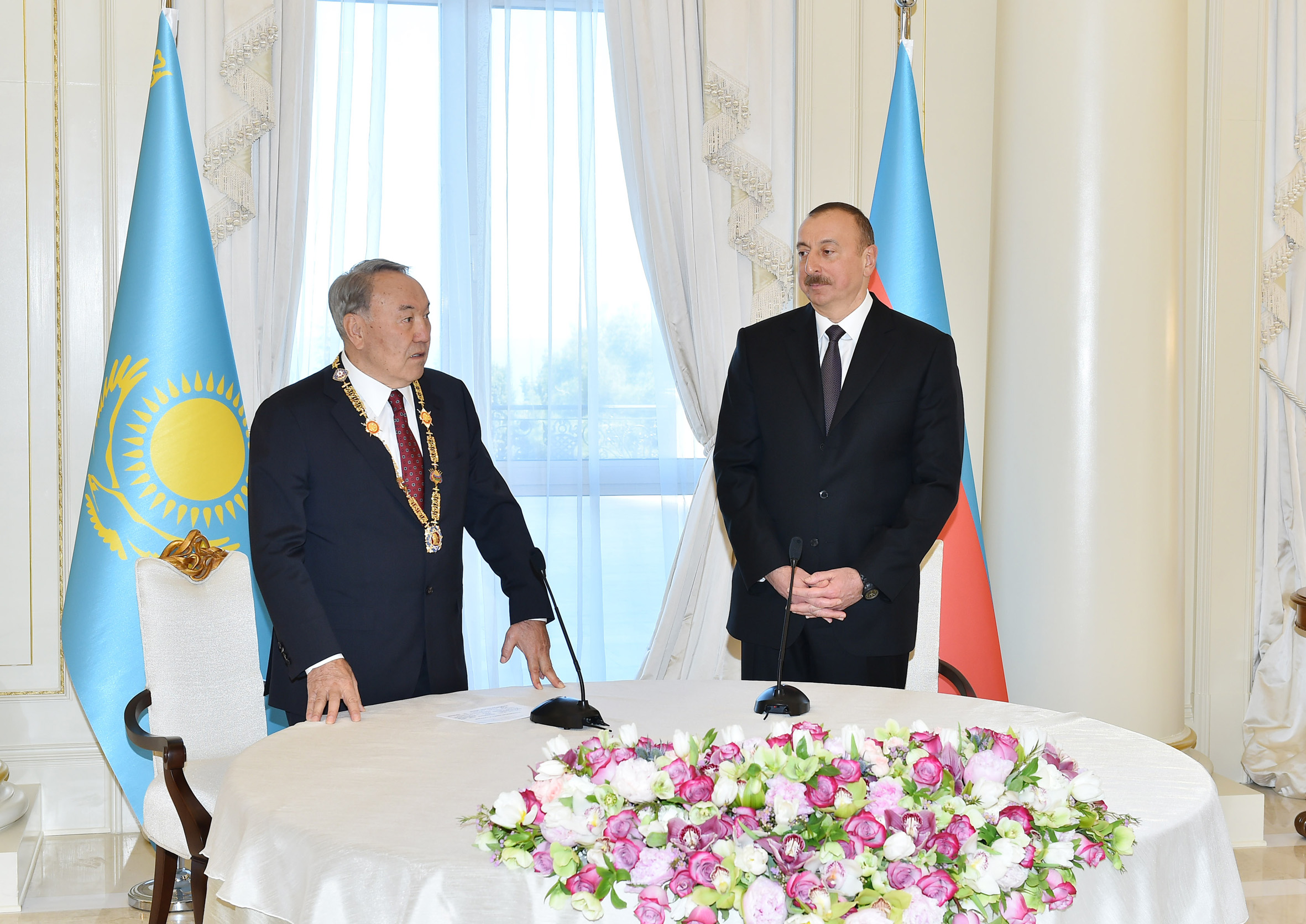 Kazakh President Nursultan Nazarbayev presented with "Heydar Aliyev" Order